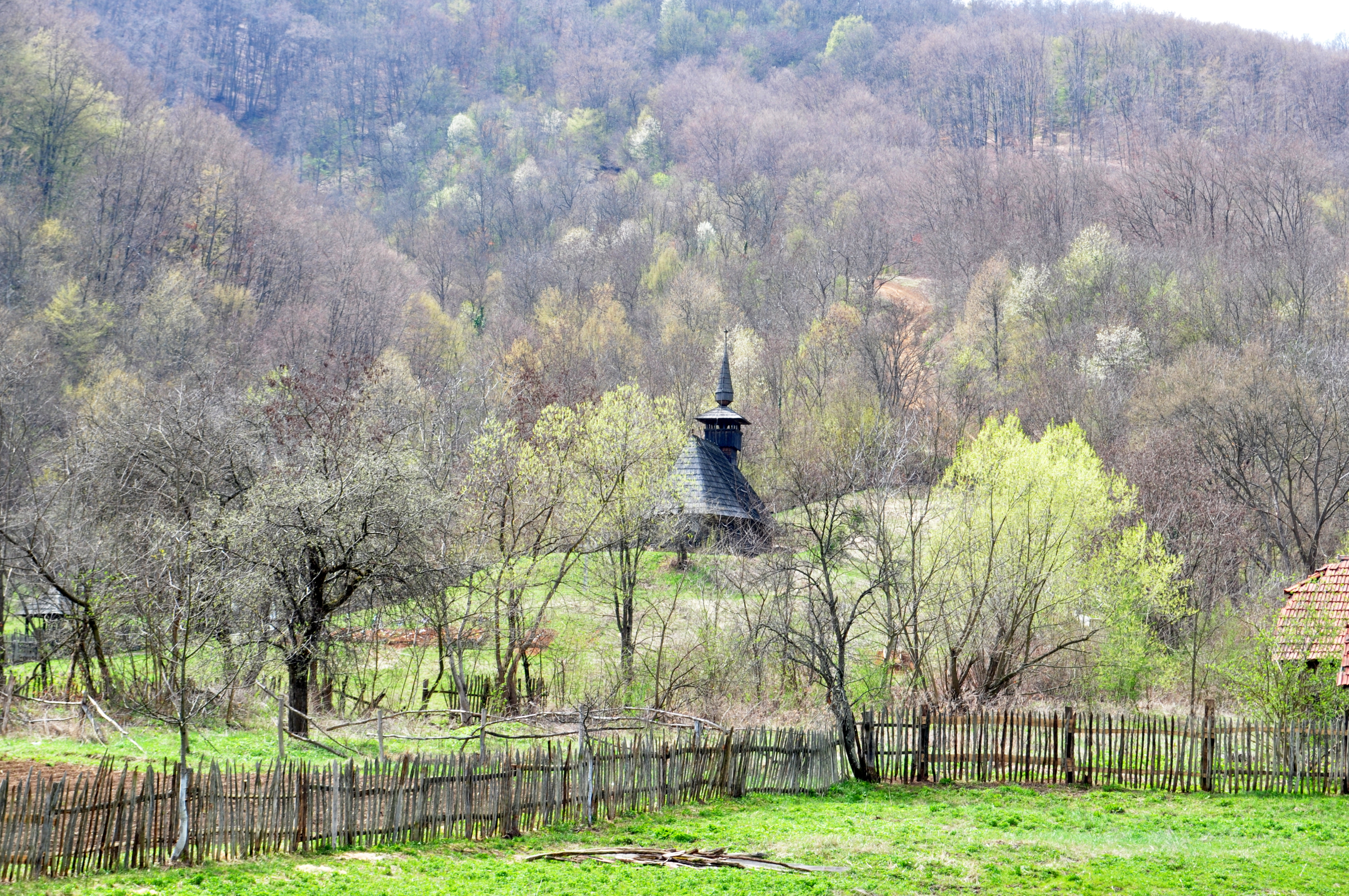 Troaș, Arad county, Romania